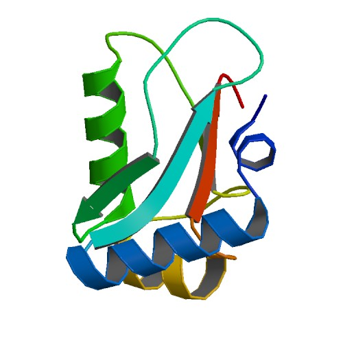 PDB structure 1UGM